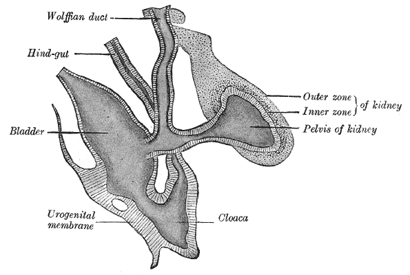 Primitive kidney and bladder, from a reconstruction. (After Schreiner.)